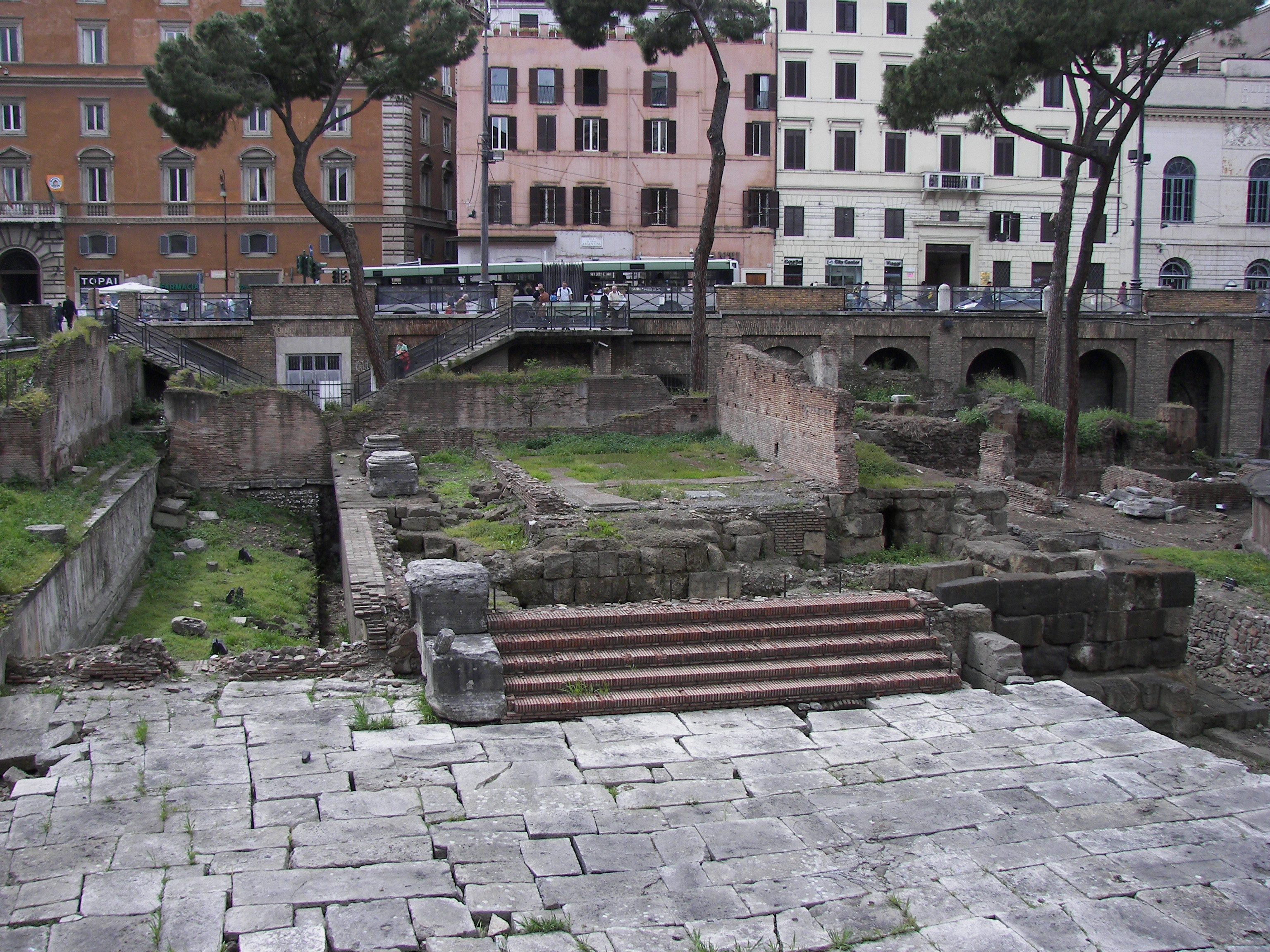 Temple C of Largo di Torre Argentina in Rome.